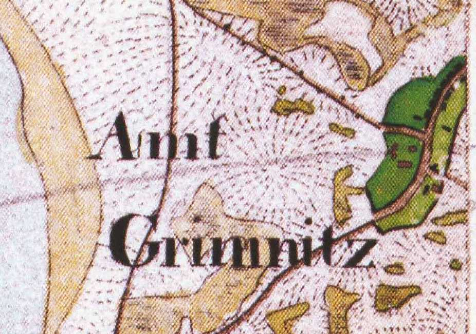 Amt Grimnitz, Althüttendorf, Lkr. Barnim, Brandenburg, Germany, Detail from the Urmesstischblatt Sheet 3038 Joachimsthal, drawn in 1826